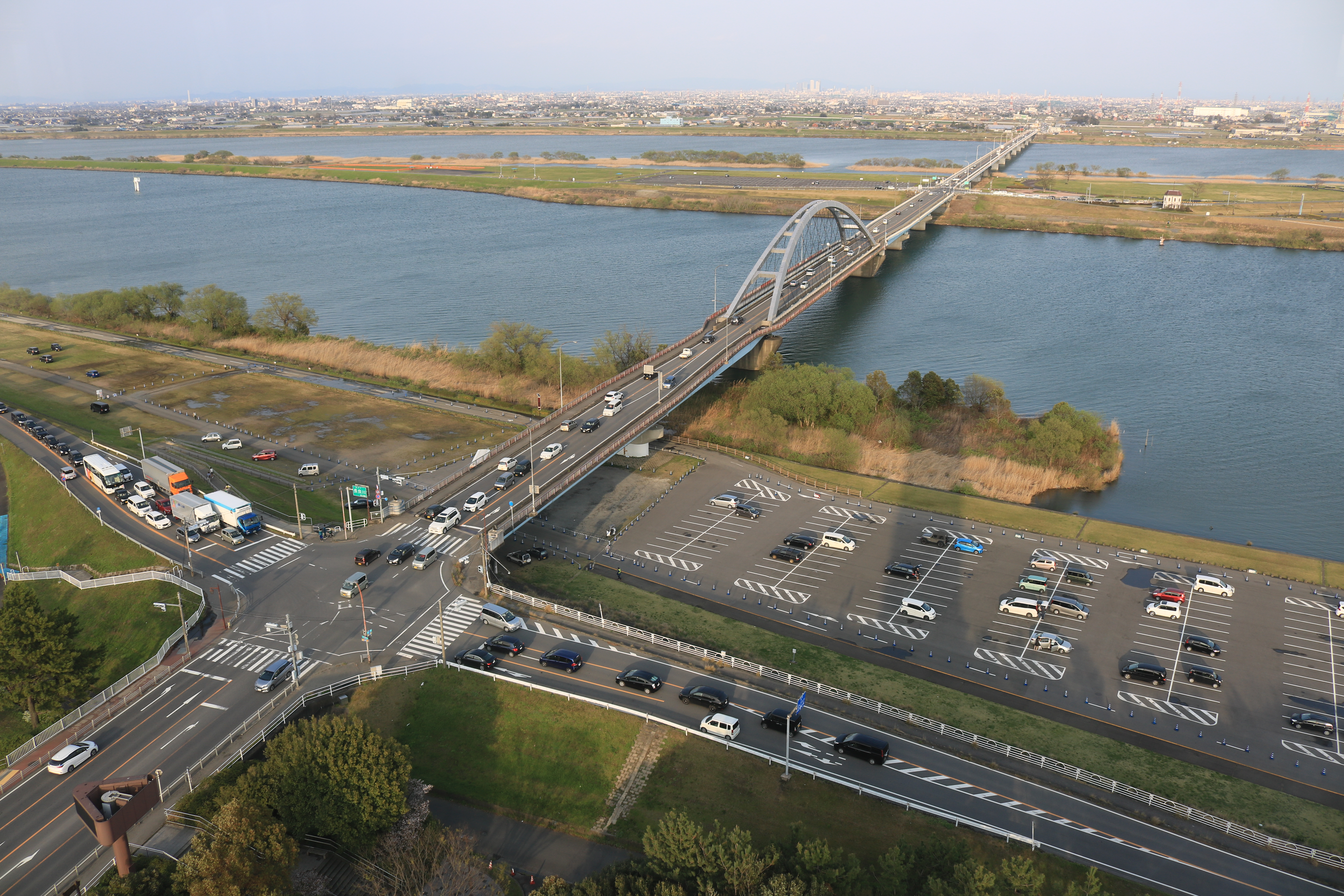 Nagaragawa Bridge over Nagara River and Tatsuta Bridge over Kiso River of Aichi Prefectural Road and Gifu Prefectural Road 125 seen from Observation tower of Kiso Sansen Park Center between Kaizu, Gifu prefecture and Aisai, Aichi prefecture, Japan.